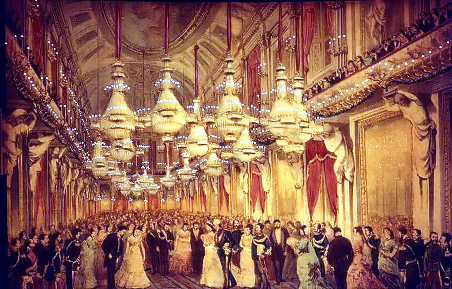 Antonio Bonamore (1845-1907) - The Kaiser Wilhelm I feasted in Milan (Oct. 17 1875) - The great Ball at the Royal Palace". From "L'Illustrazione Italiana", 1875.